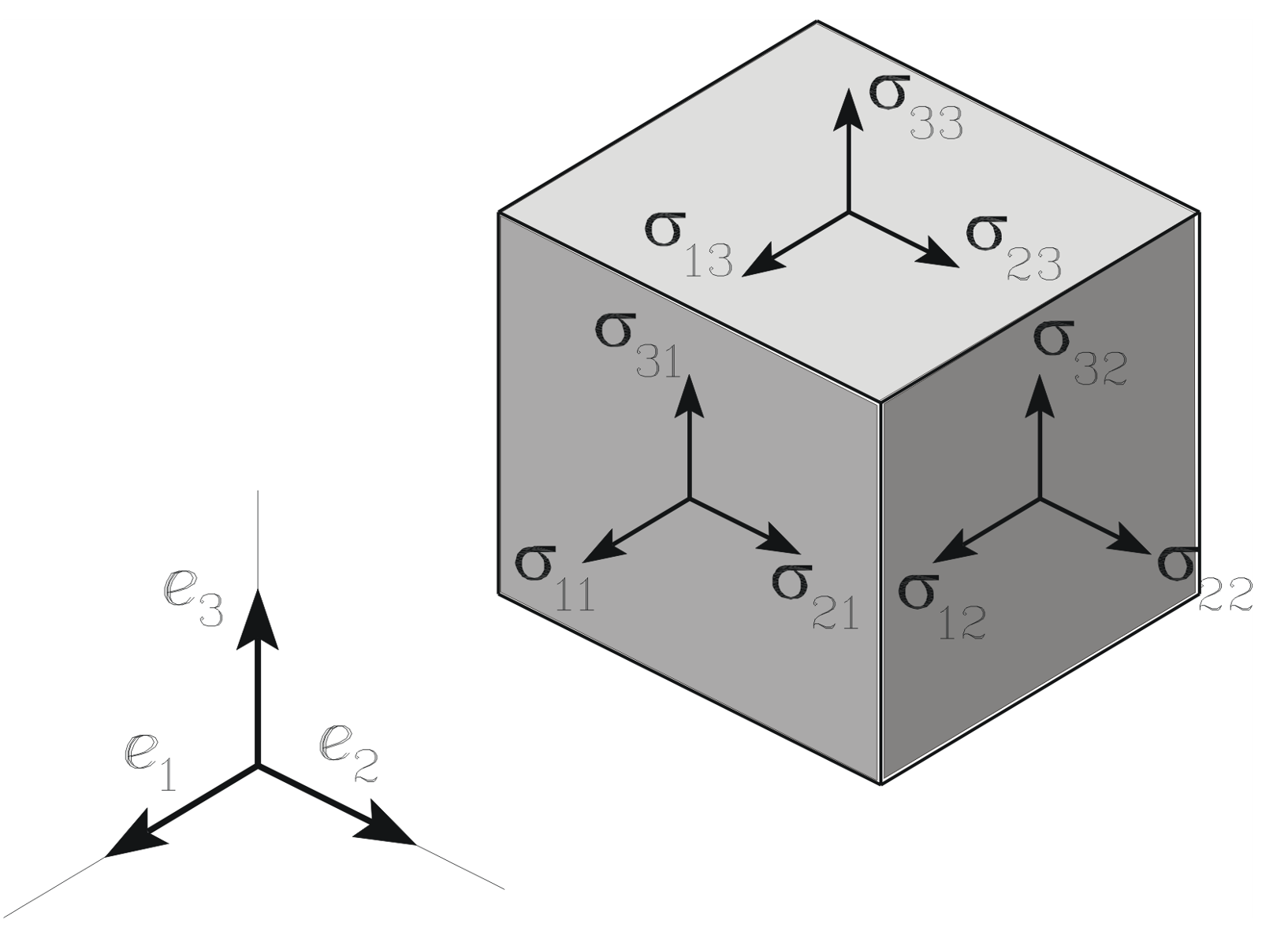 Components of Cauchy stress tensor